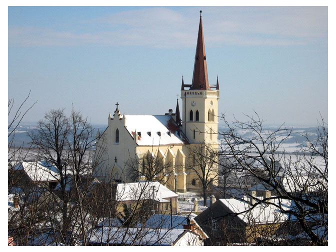 Church in Znojmo-Konice village.